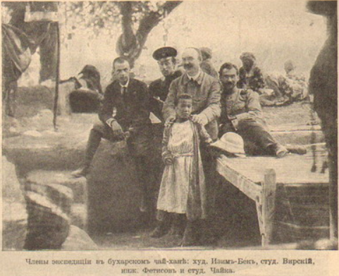 Expedition of the architecte Pyotre Fetisov (1877-1926) to the Central Asia. Bukhara. The artist Fyodor Izenbek (1890-1941), the student Virsky, Pyotre Fetisov, student Nikolay Chayka.